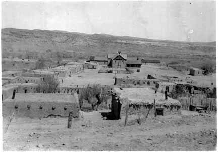 Abiquiu church and plaza around 1920 Photo Archives, Palace of the Governors, Santa Fe